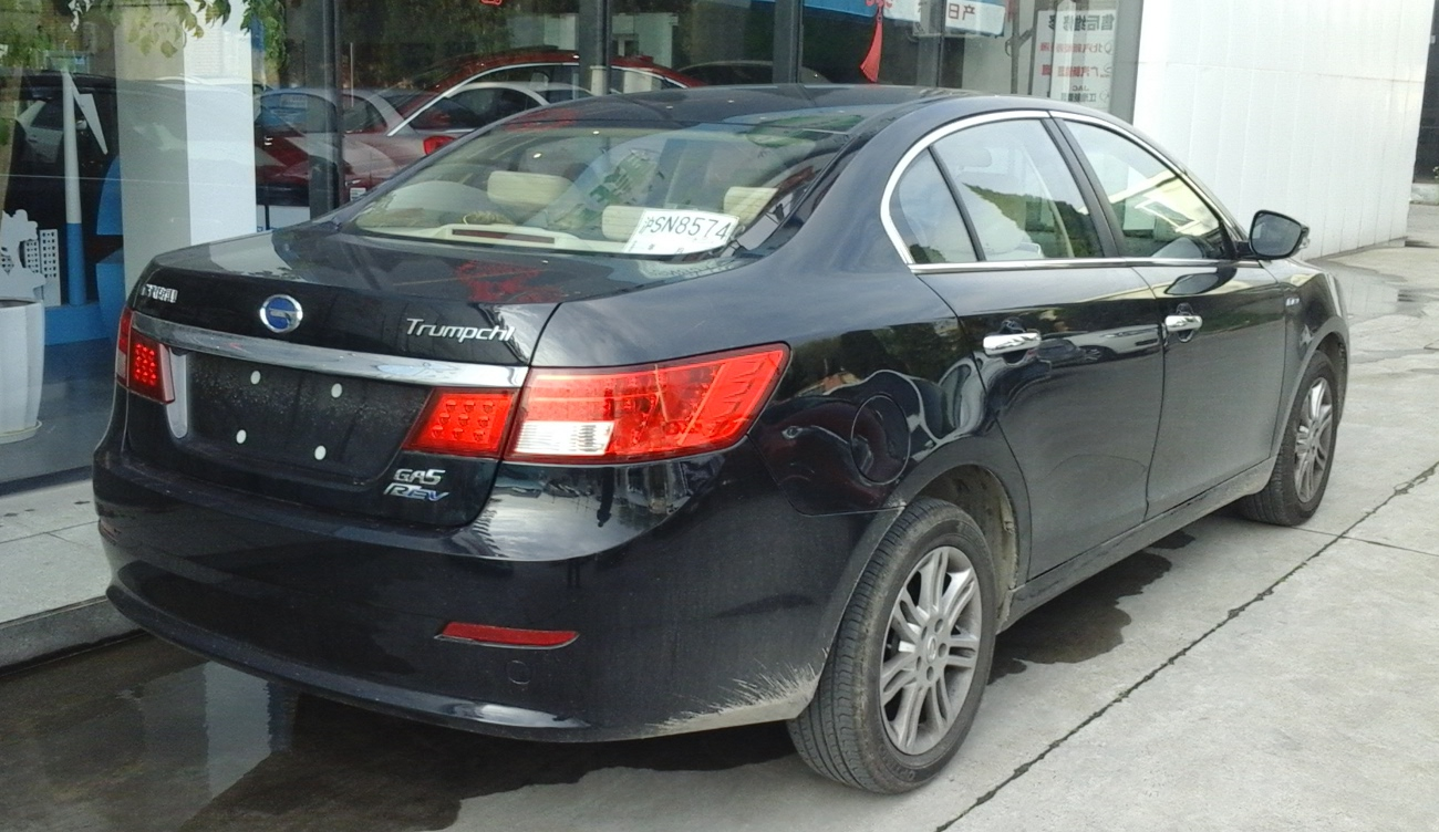 GAC Trumpchi GA5 REV photographed in Shanghai, China.